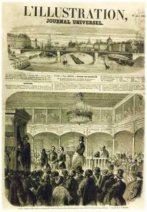 L'Illustration, 13.09.1896, No:103